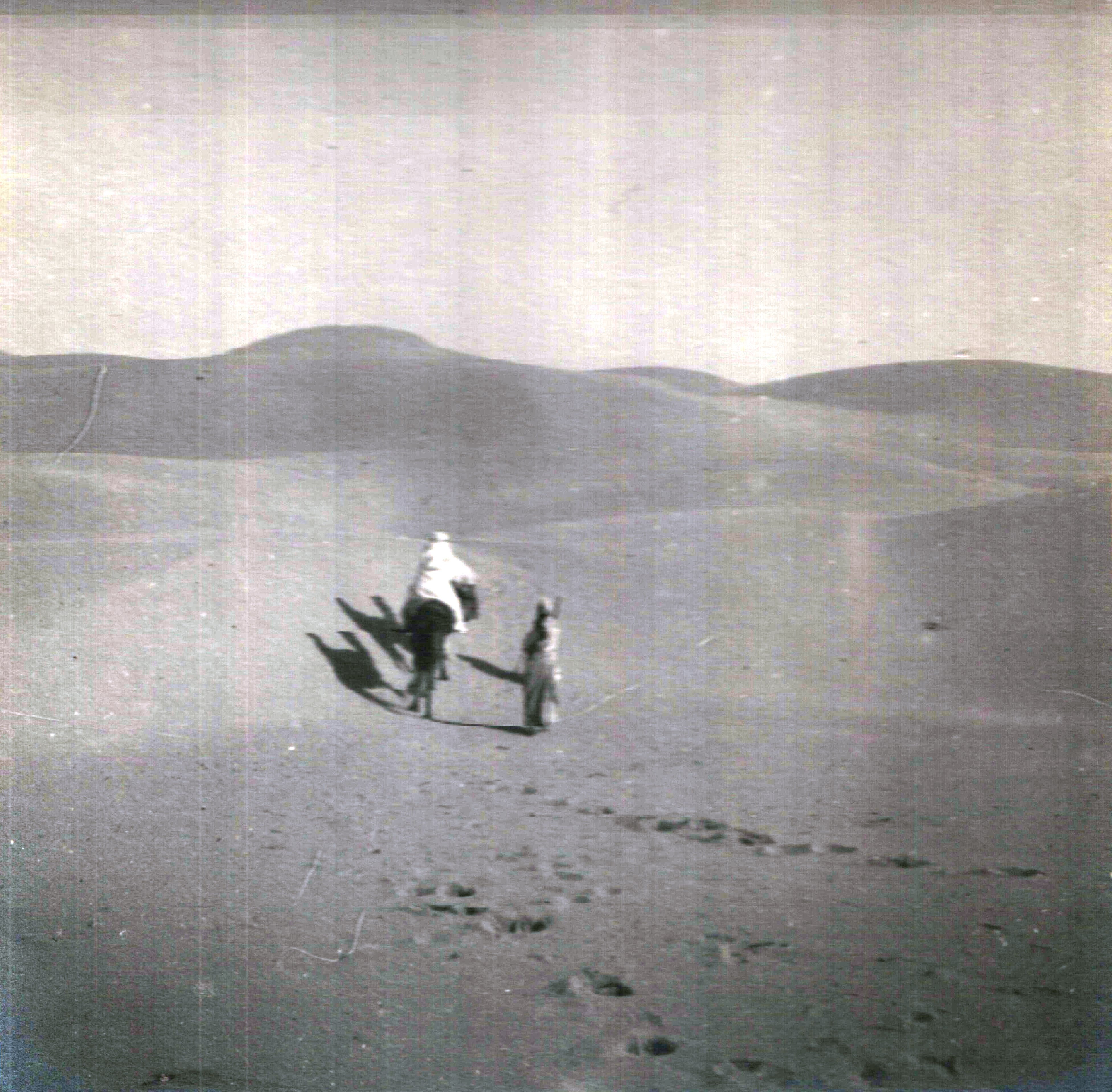 Views and photos of the Sahara desert and other regions in Africa.